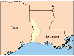 This is a map of the Sabine Free State I made using USGS data. J. Villasana Haggard, "House of Barr and Davenport", Volume 49, Number 1, Southwestern Historical Quarterly Online used as reference.